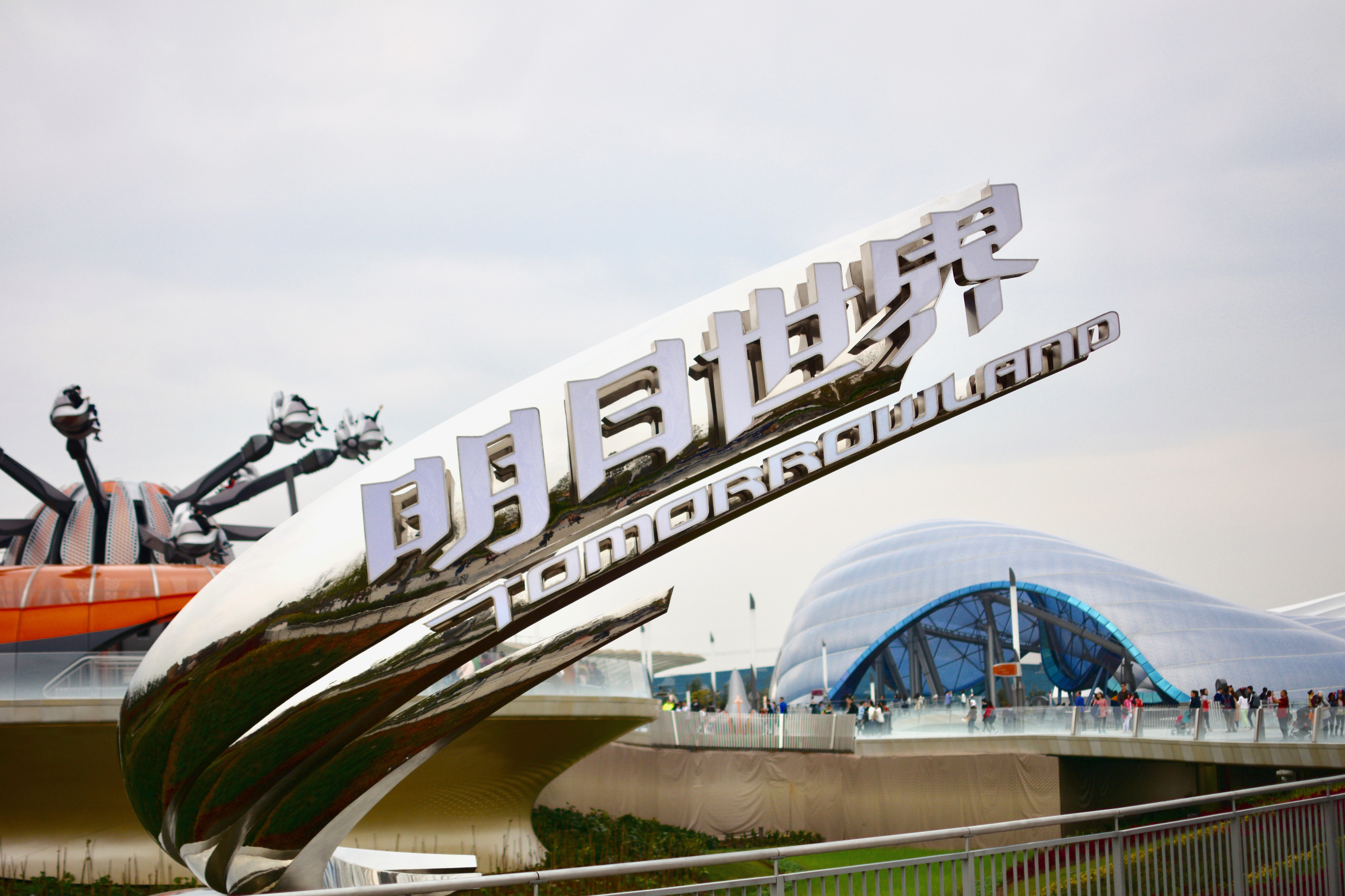 The entrance to Tomorrowland at Shanghai Disneyland Park, with the Jet Packs ride and Tron Lightcycle Power Run in the background.